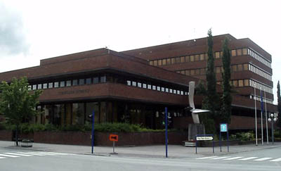 Steinkjer rådhus (town hall) Norway